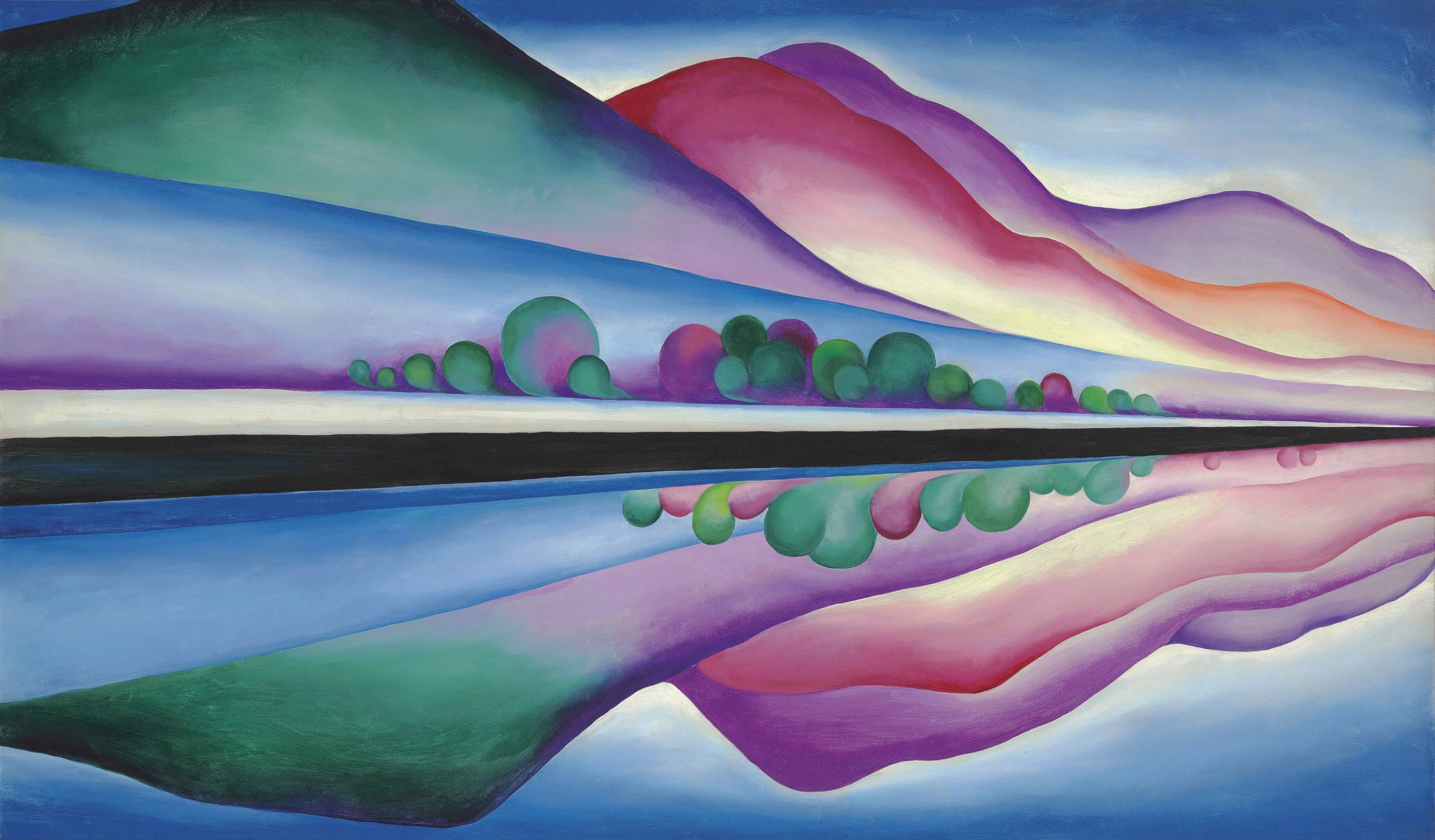 Lake George Reflection by Georgia O'Keeffe, oil on canvas, 58 x 34 in. (147.3 x 86.4 cm.)